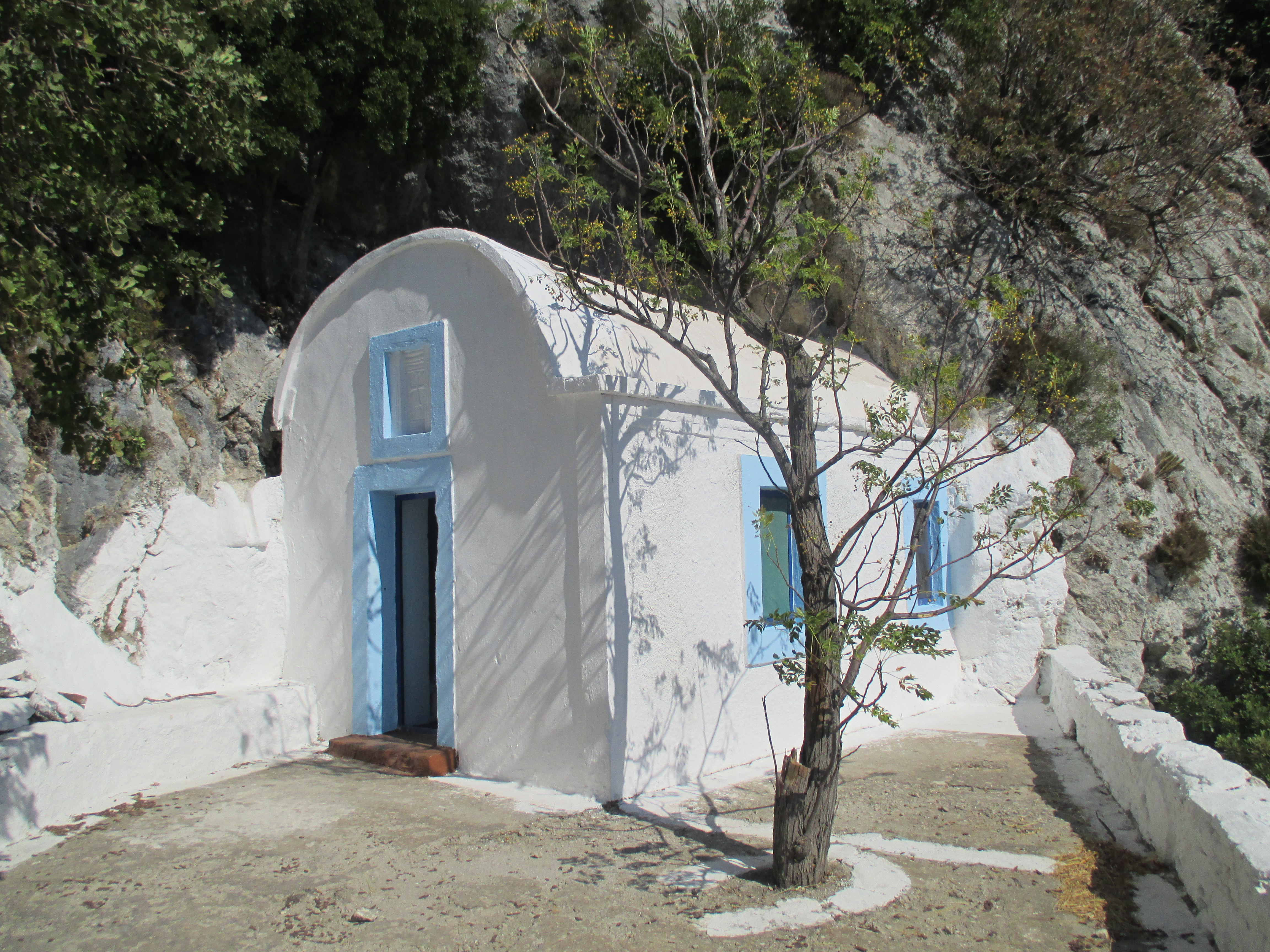 Agios Ioannis Theologos church near Pythagoras Cave, Mount Kerkis, Samos, Greece.